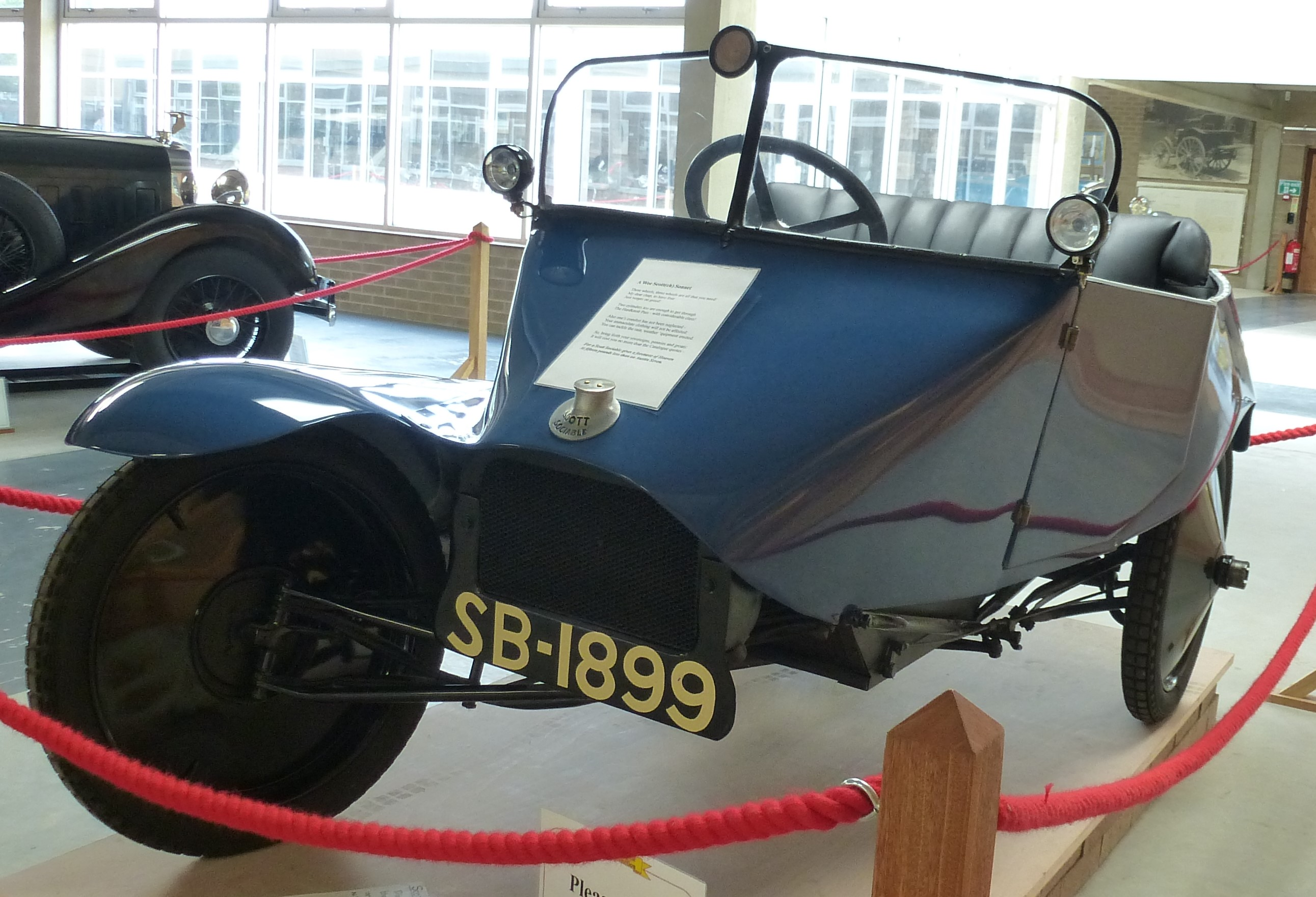 Scott Sociable 1923